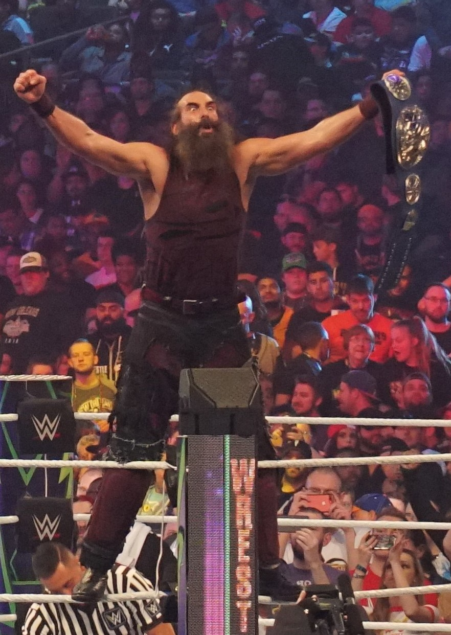 Erick Rowan & Luke Harper at WrestleMania 34 after winning the WWE SmackDown Tag Team Championship.